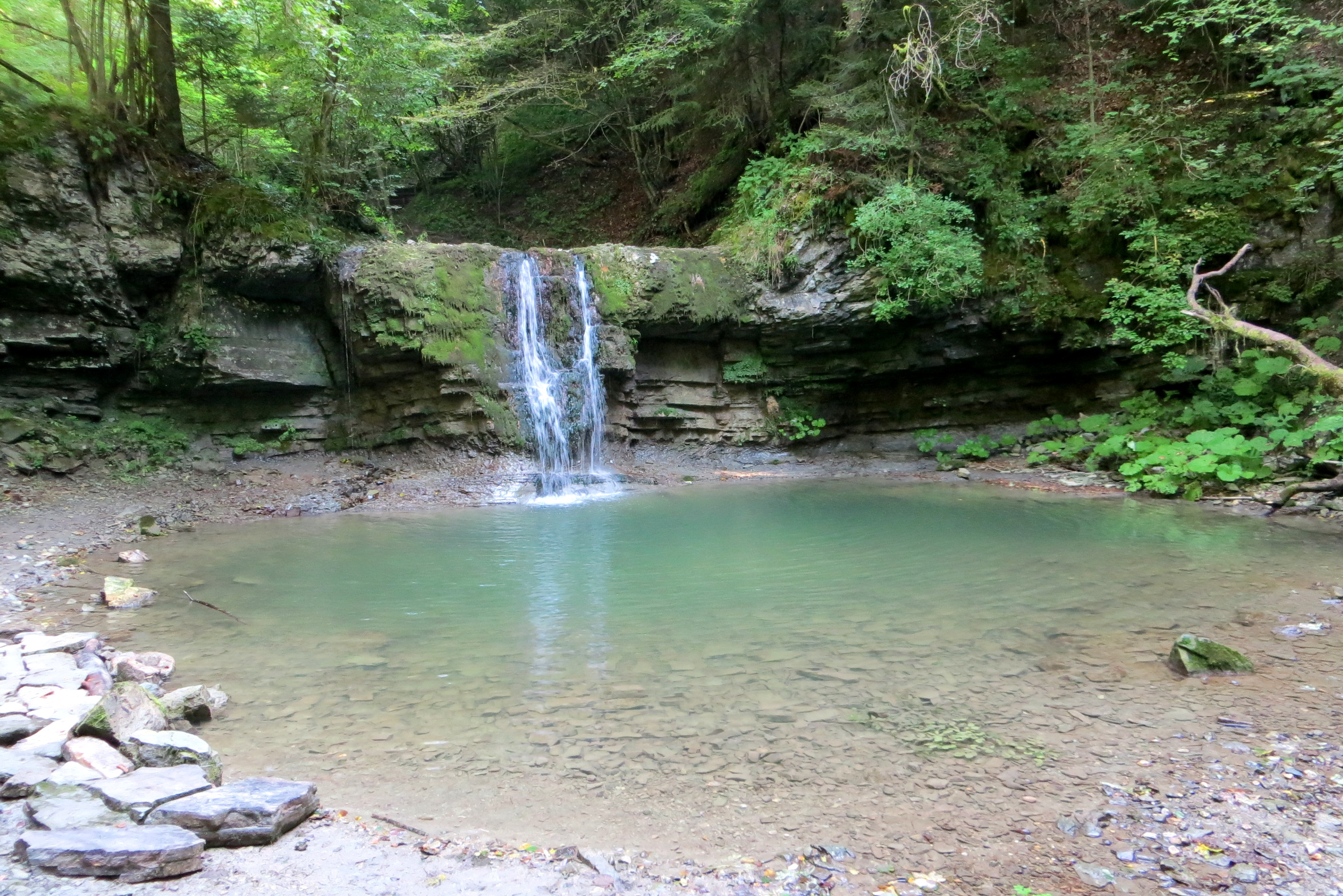 Peračica Falls in Črnivec, Municipality of Radovljica, Slovenia